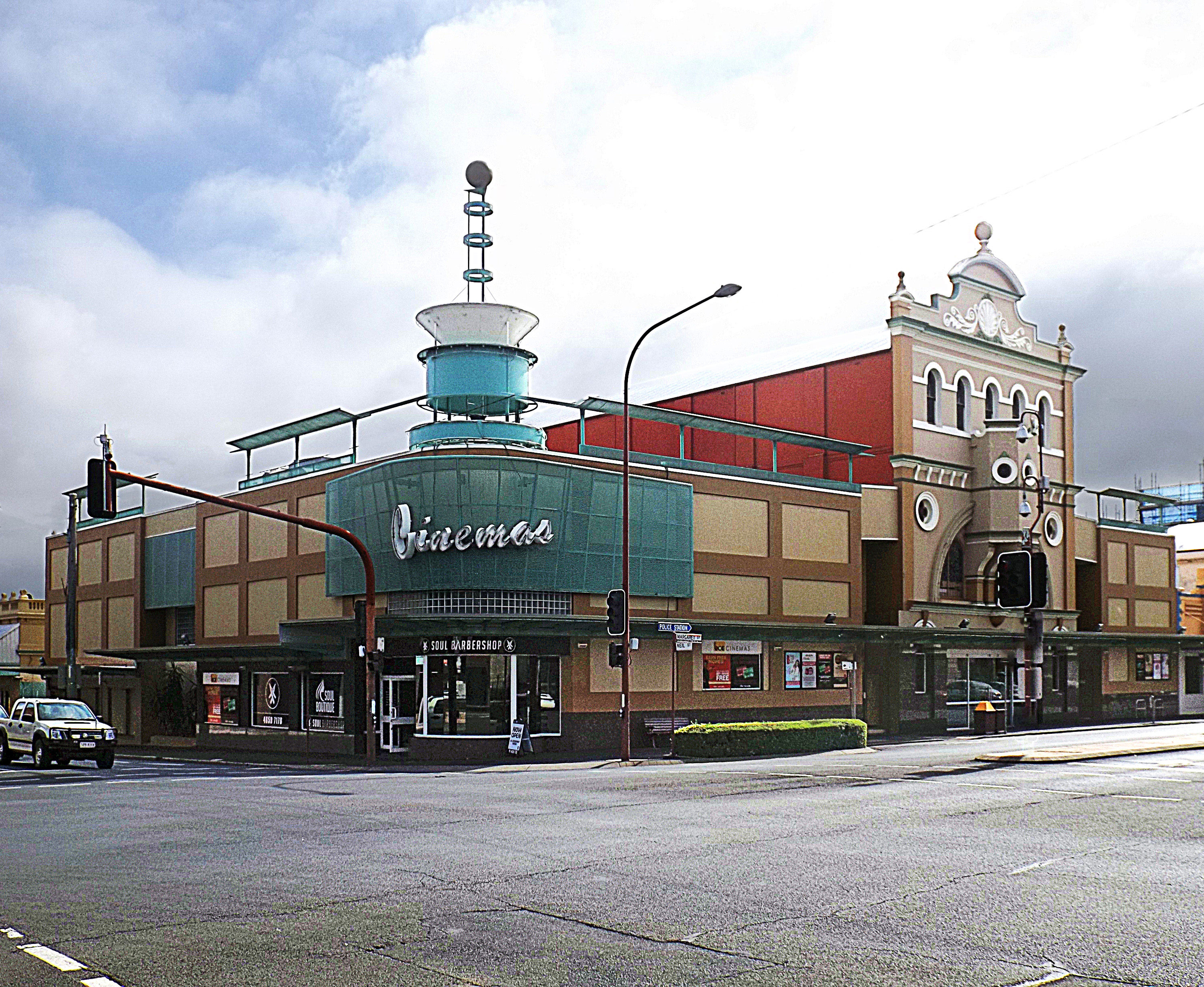 Photo of Strand Theatre on the corner of Neil Street and Margaret Street in Toowoomba City, Queensland, Australia.